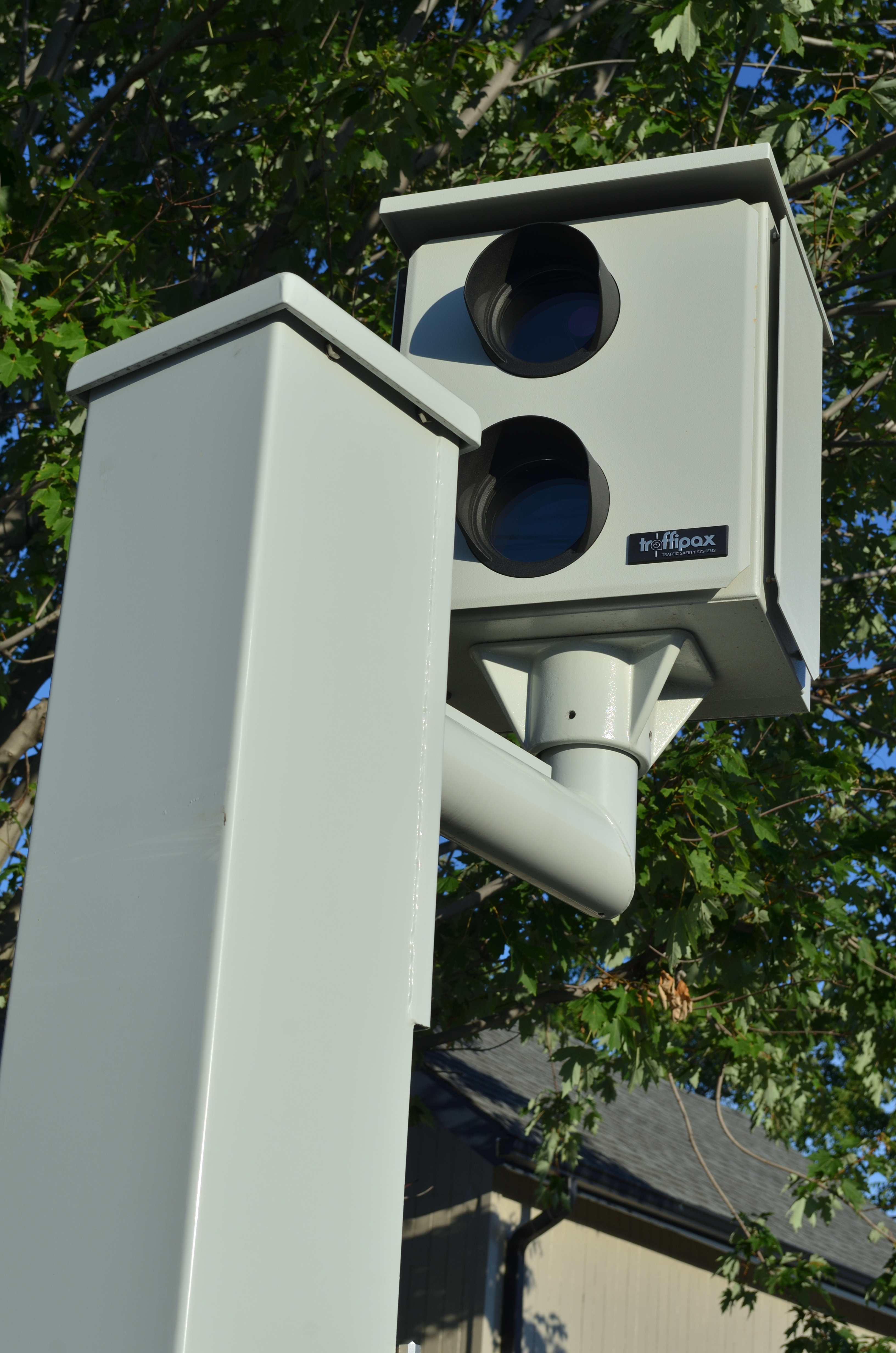 Traffipax red light camera in Markham, Ontario